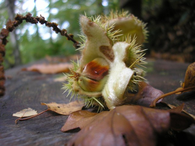 Sweet Chestnut, Abbotsford Wood